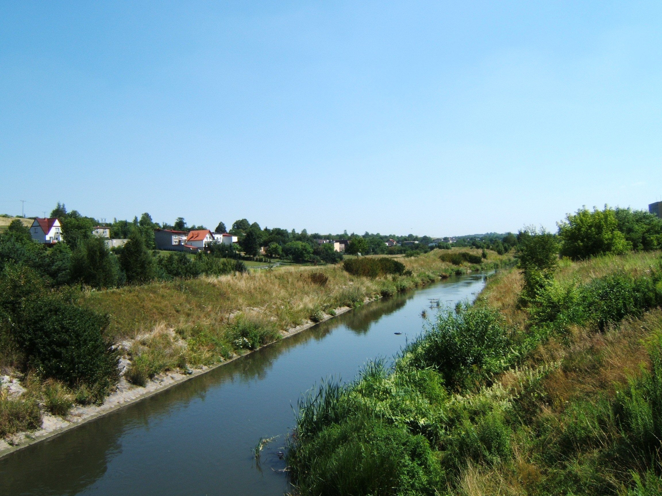 Brynica river in Piekary Śląskie